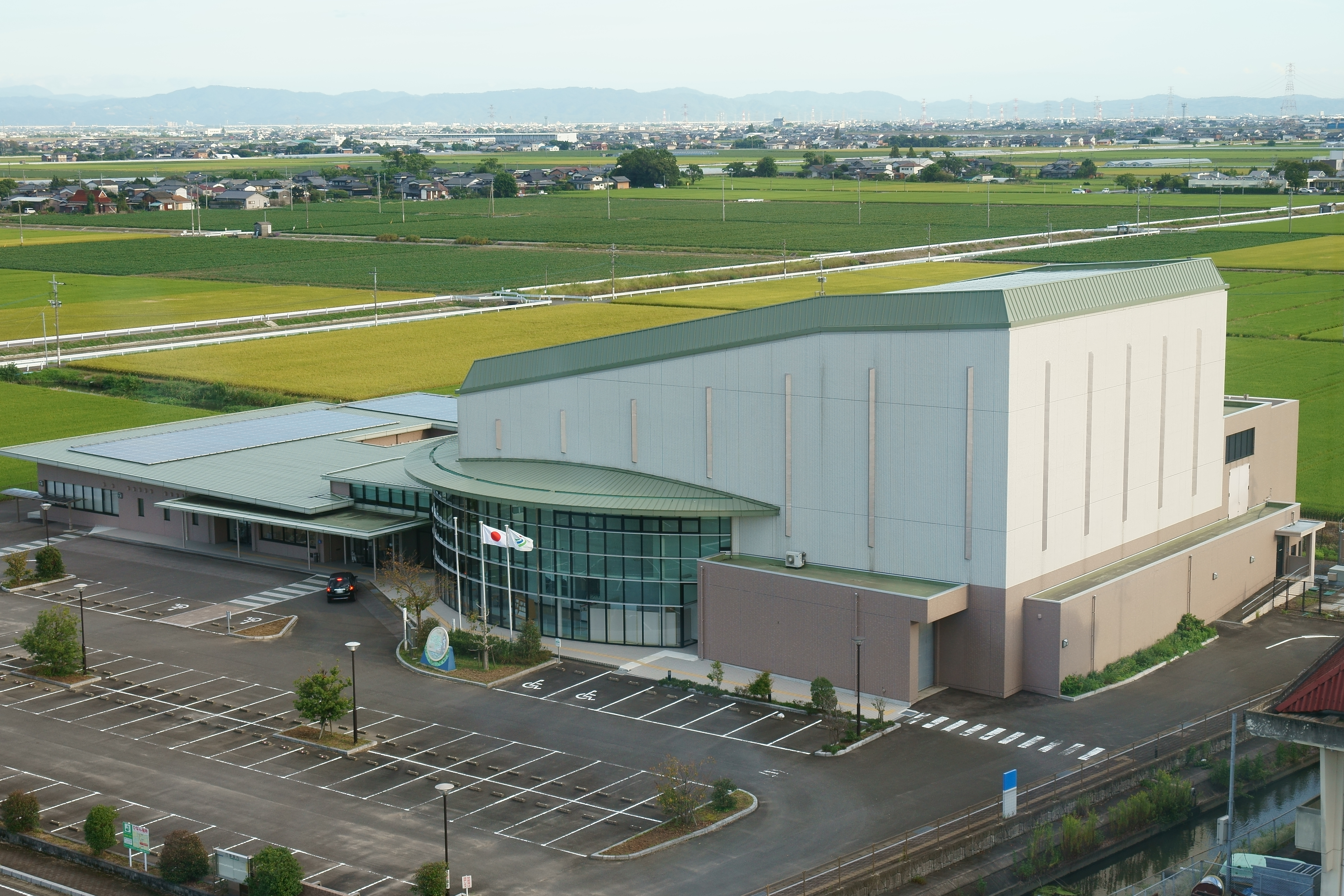 "Hangii Hall", the Kanzaki city Chiyoda Cultural Hall in Naotori, Chiyoda-cho, Kanzaki city, Saga prefecture.